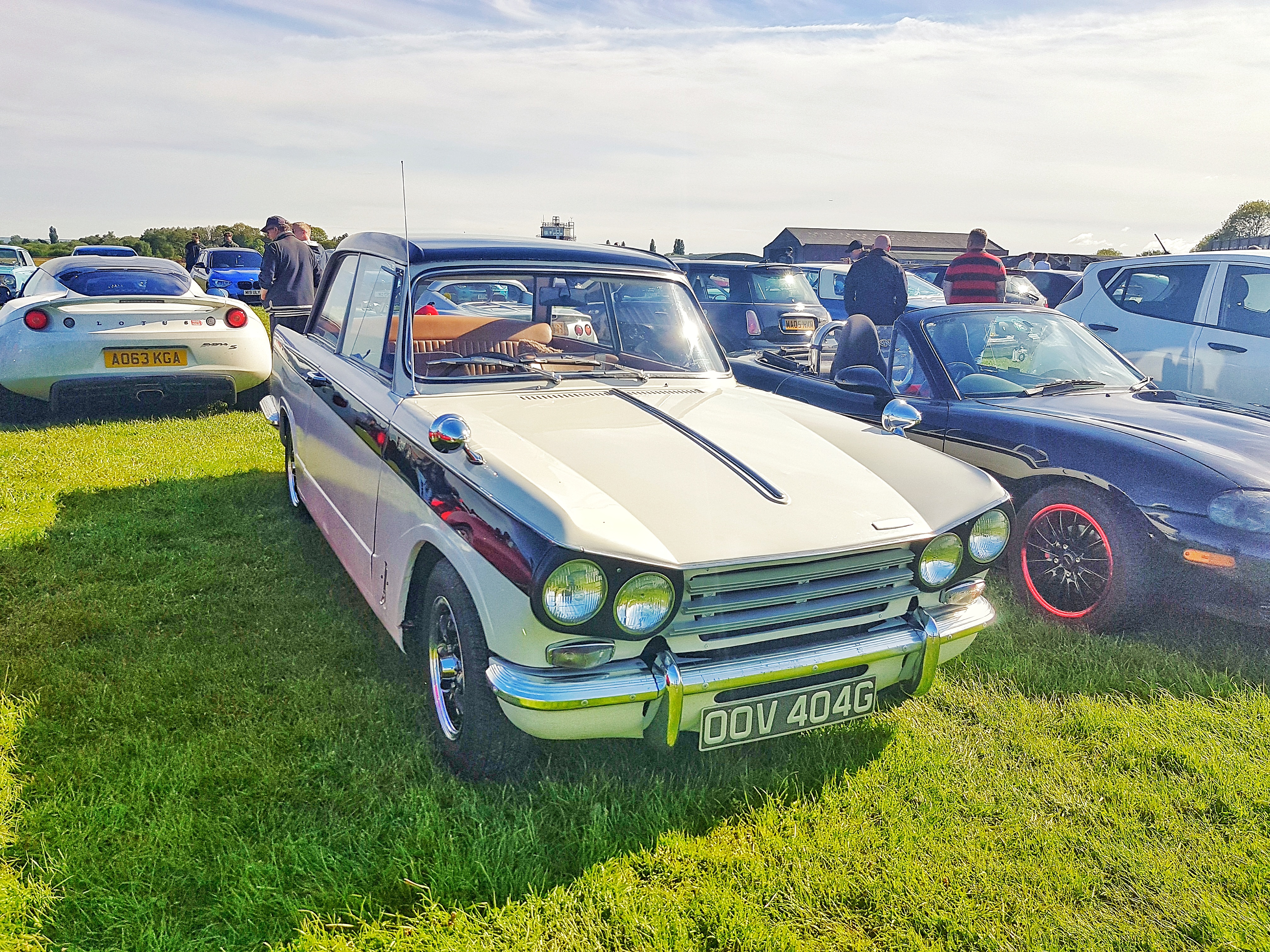 Taken at the manchester cars and coffee event at city airport manchester